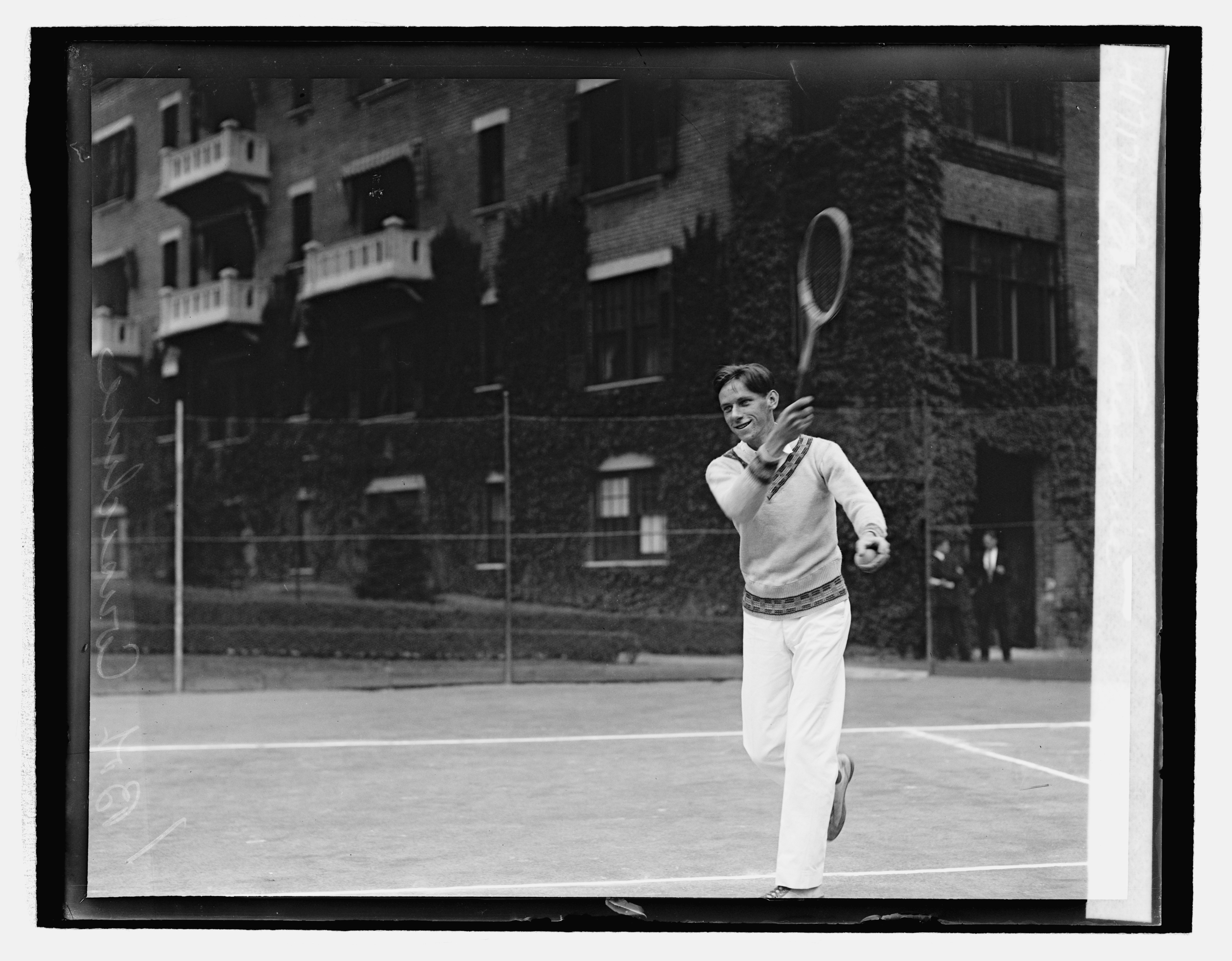 Title: Bob Considine Abstract/medium: 1 negative : glass ; 4 x 5 in. or smaller